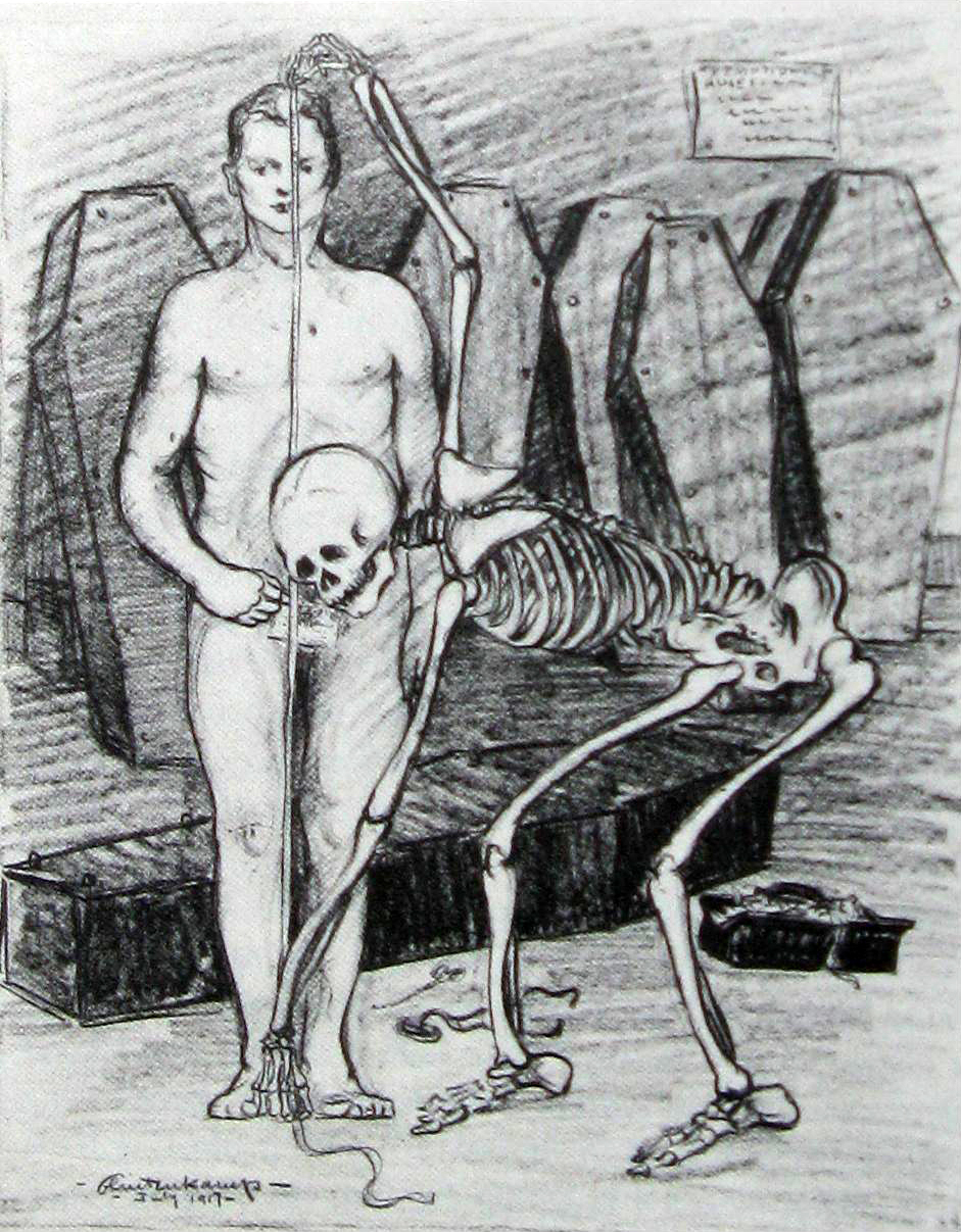 Physically Fit, a political cartoon by Henry Glintenkamp 1917. Medium: crayon and India ink on board. Dimensions: 53.3 x 41.9 cm.